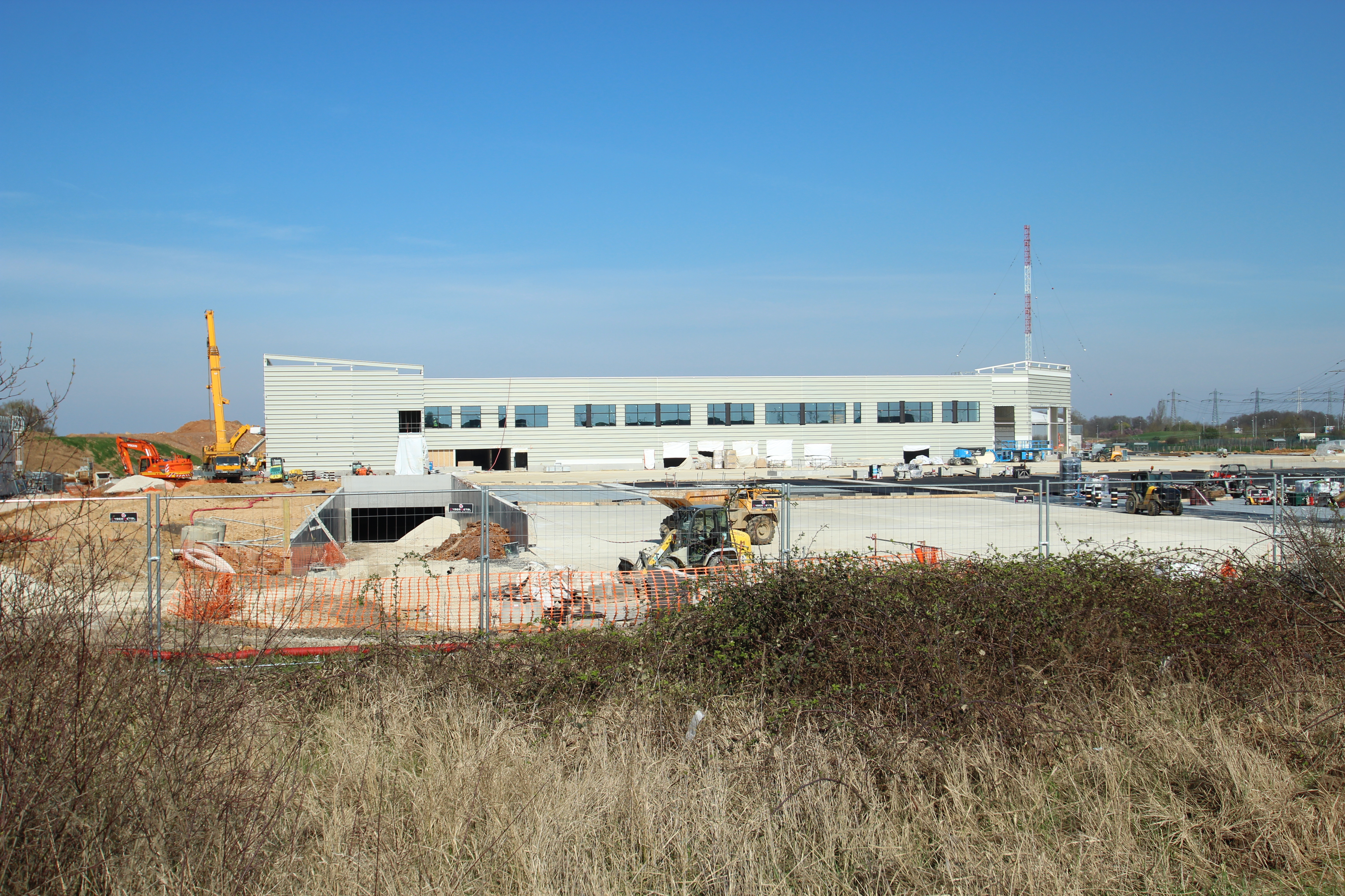 Construction site of the Costco shop in the Courtabœuf 8business park in Villebon-sur-Yvette, France. Object location48° 41′ 12.08″ N, 2° 13′ 13.55″ E